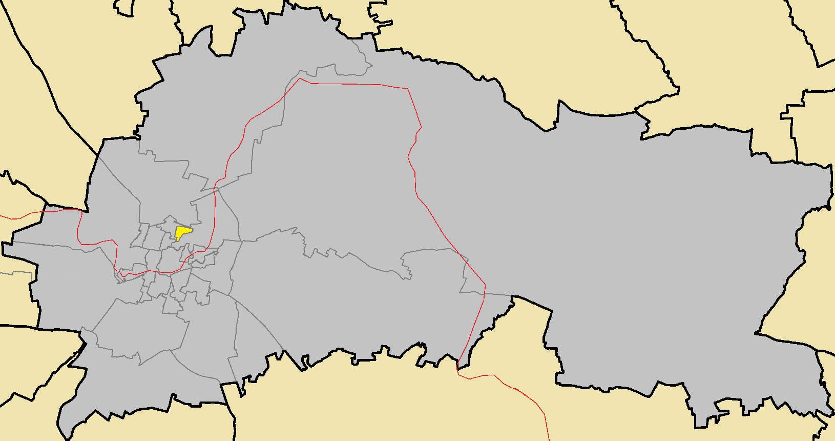 Ayios Loukas in Nicosia Municipality (de jure).